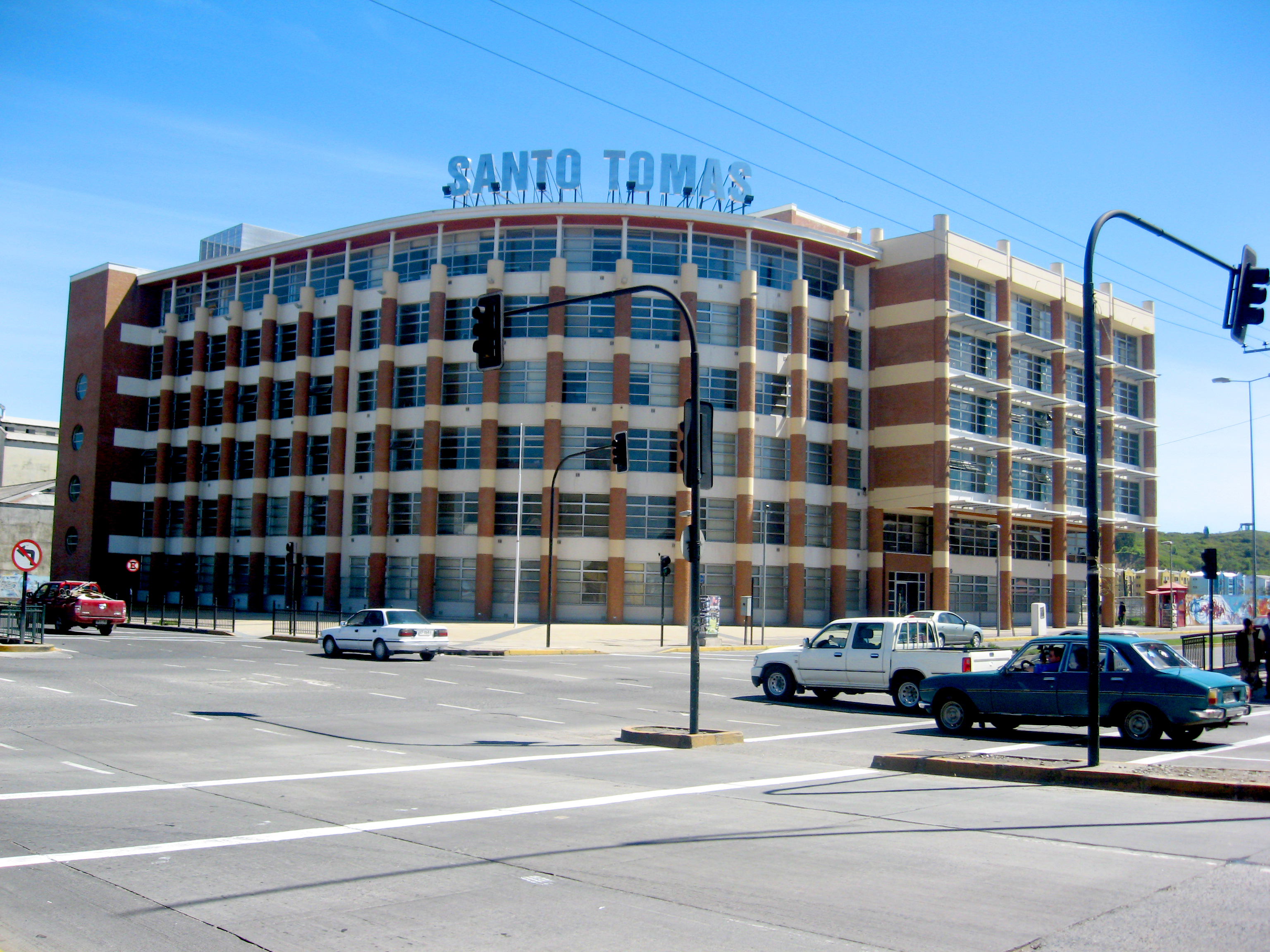 University Santo Tomas, Concepcion, Chile